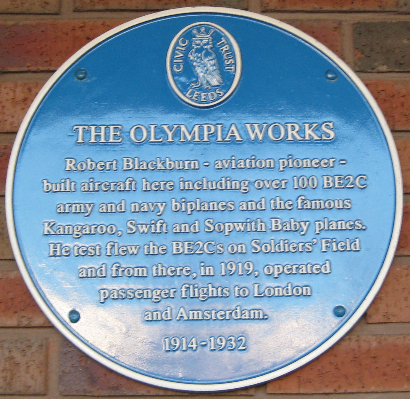 Blue Plaque, Tesco, Roundhay Road, Leeds, LS8 4BU